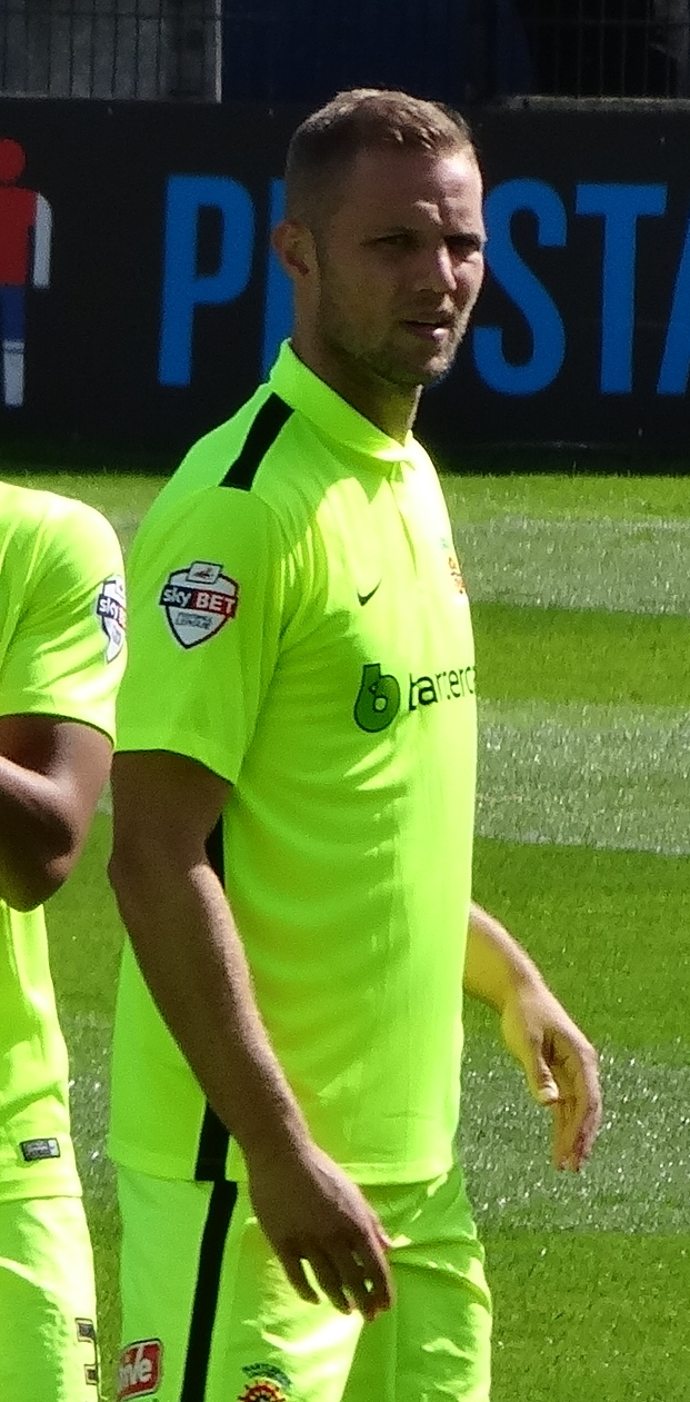 Harry Worley playing for Hartlepool United against York City at Bootham Crescent, York on 15 August 2015